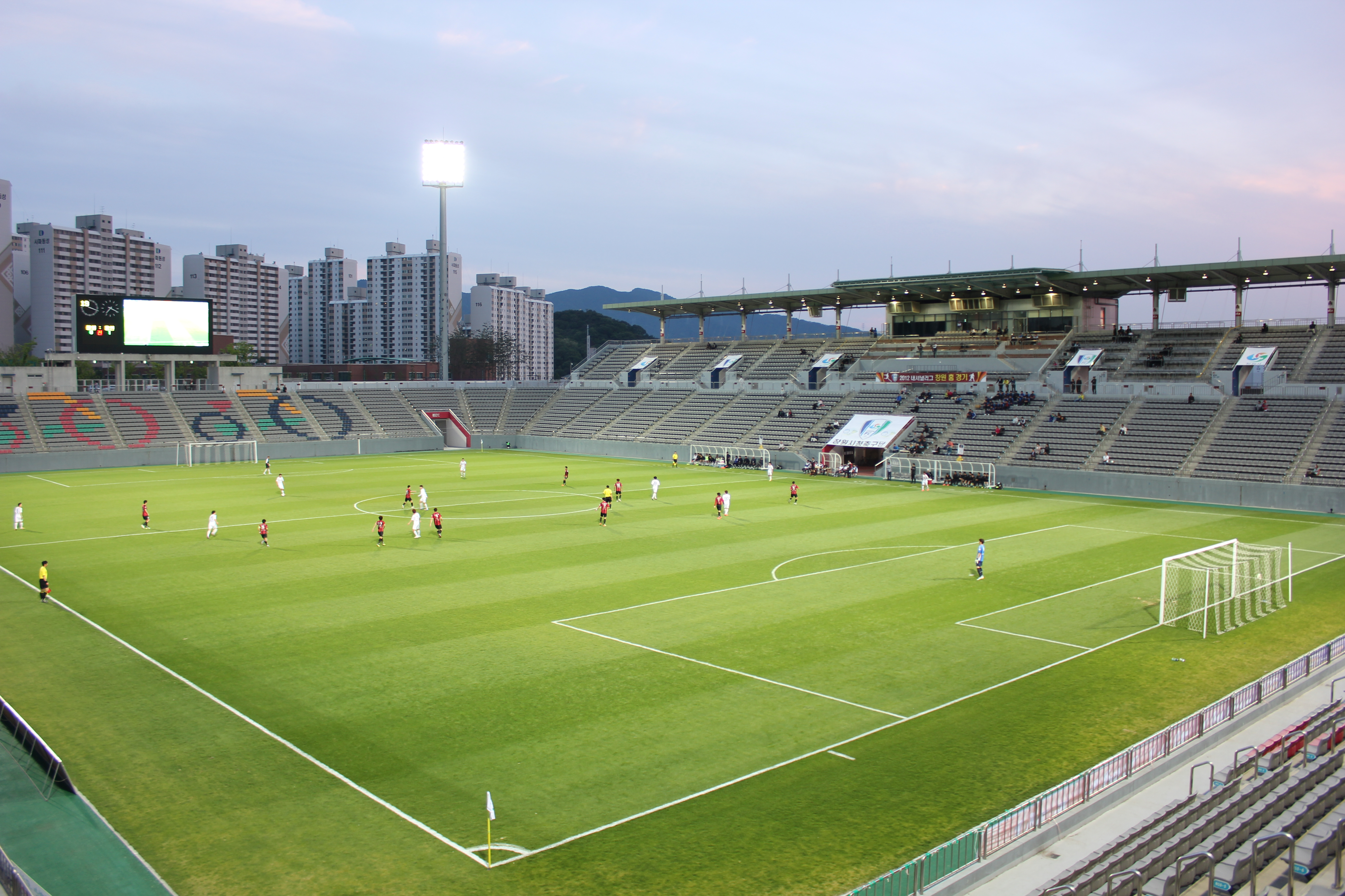 Changwon Soccer Center